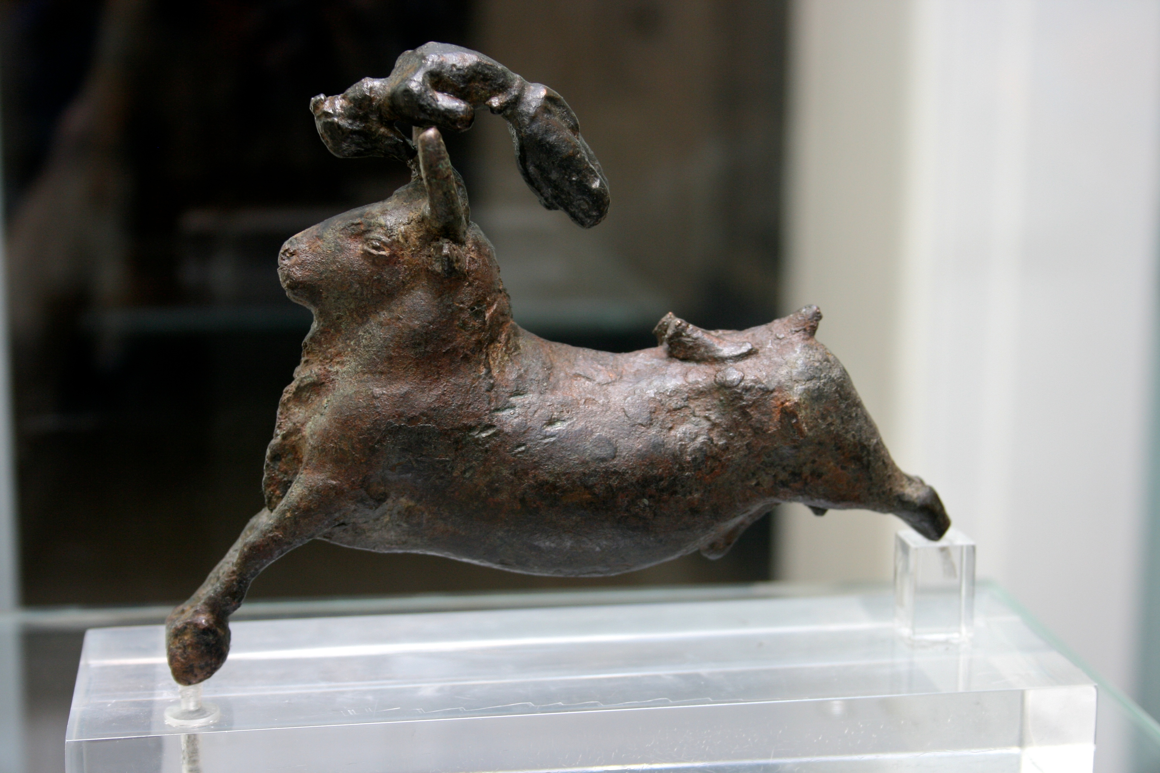 Minoan Bull-leaper at the British Museum. Bronze group of a bull and acrobat. Minoan, 1600-1450 BC. Said to be from south west Crete.